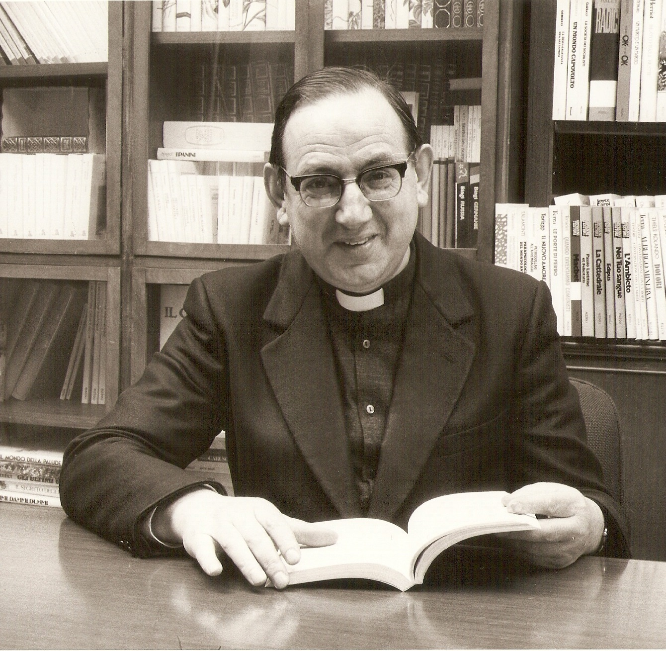 Don Giuseppe Segalla, italian theologian (1932-2011) Category:Biblical scholars from Italy